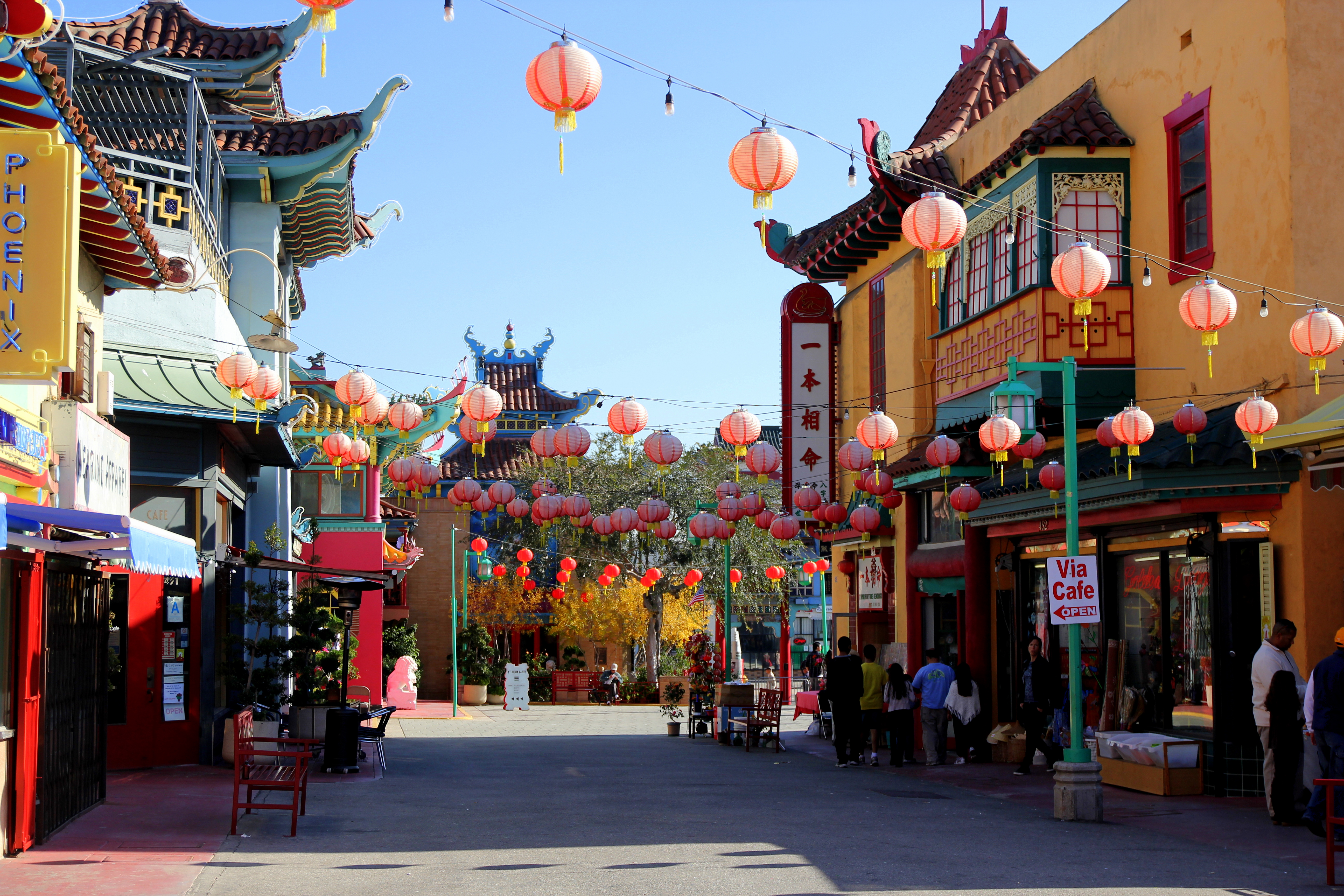 China Town main plaza - December 2011